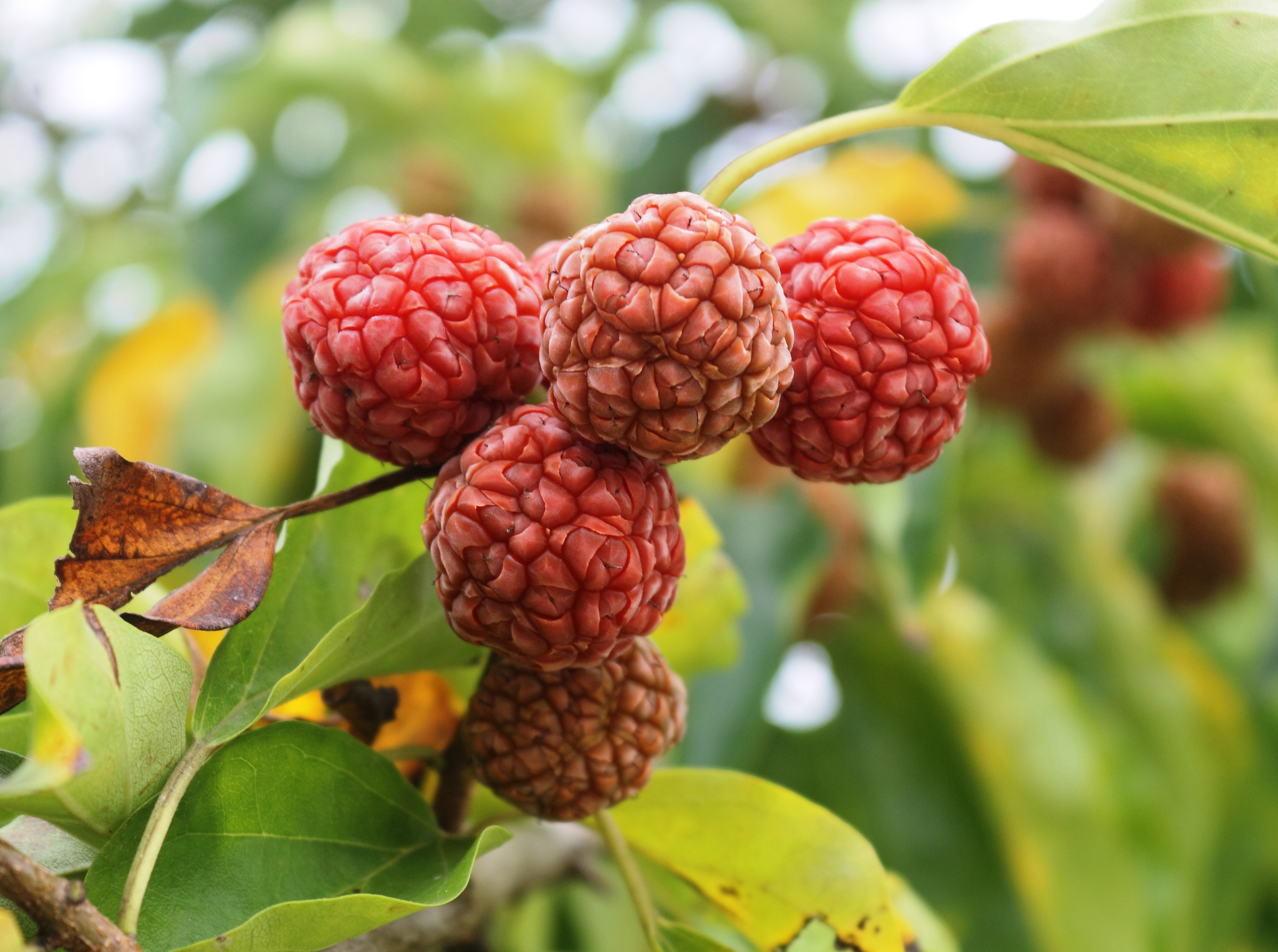 Maclura tricuspidata fruits. Maclura tricuspidata is a tree native to East Asia, occasionally grown for its fruit, somewhat similar to that of the related mulberry (Morus spp.). It is also known by common names including cudrang, mandarin melon berry, silkworm thorn, zhe or che (Chinese: 柘; pinyin: zhè), and Chinese mulberry (but not to be confused with Morus australis also known by that name). It grows up to 6 m high.